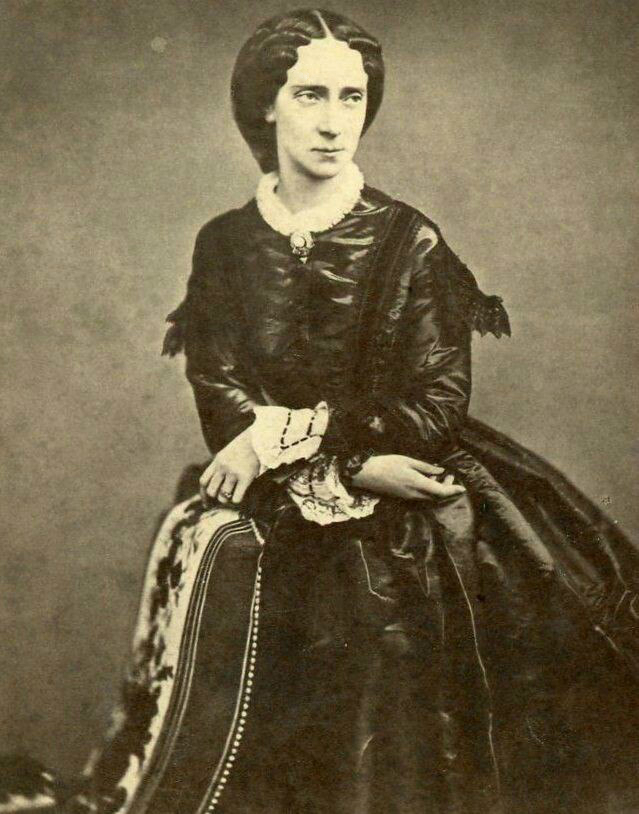 Мария Александровна (императрица pоссийской империи)